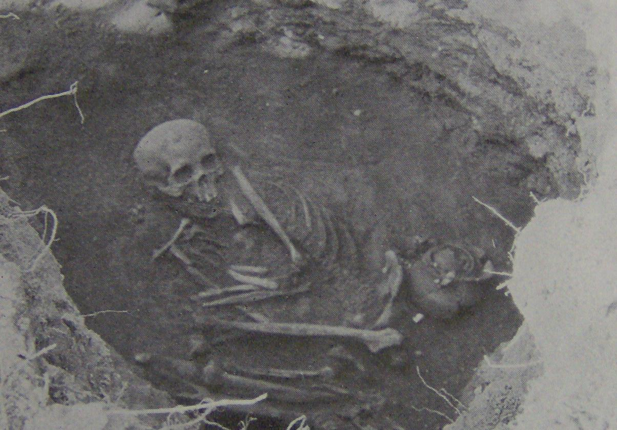 Cherokee grave uncovered on Bussell Island, at the mouth of the Little Tennessee River in Loudon County, Tennessee, USA. This grave was excavated by archaeologist M.R. Harrington in 1919. The photograph's associated caption reads "Cherokee skeleton with three nested pottery vessels, Lenoir or Bussell's Island, Lenoir City, Tennessee."